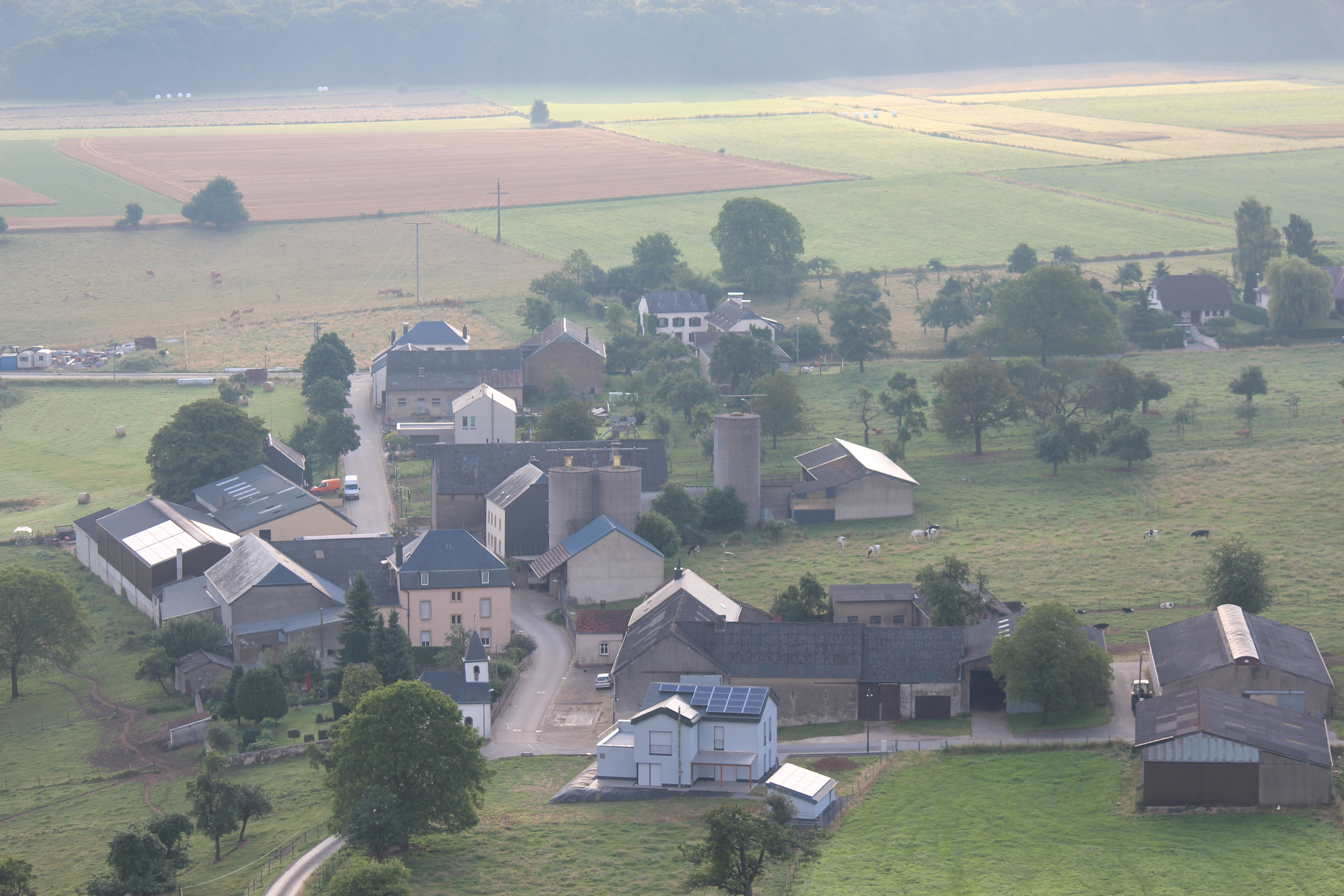 Colbette